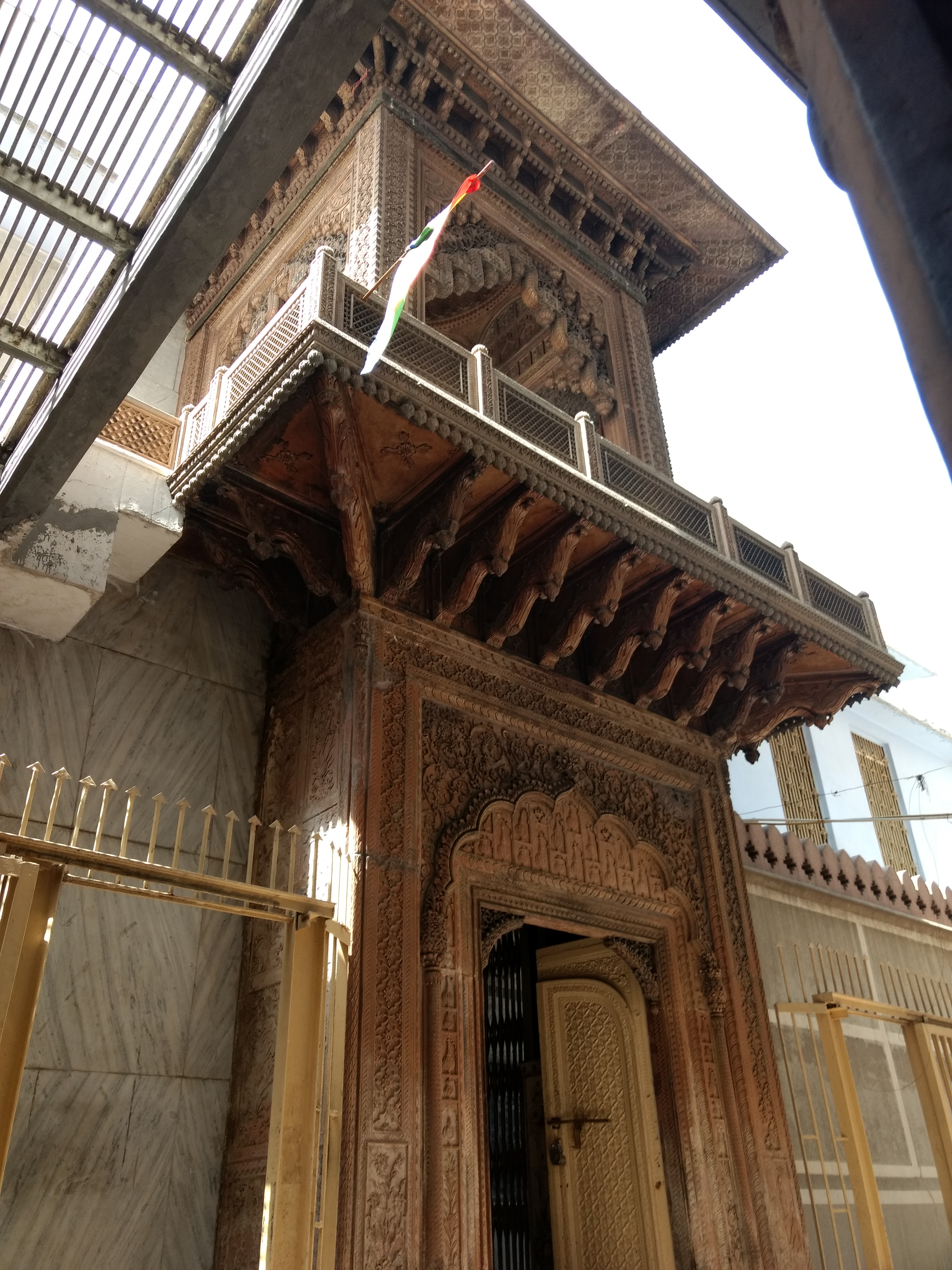 Naya Mandir, Dharampura, Chandni Chawk